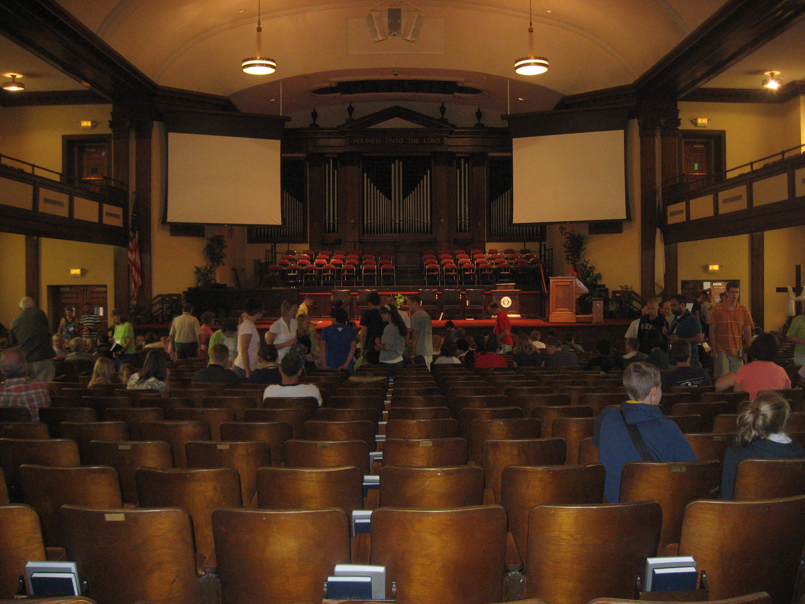 Interior of the Hughes Auditorium, the college chapel on the campus of Asbury University in Wilmore, Kentucky, United States.